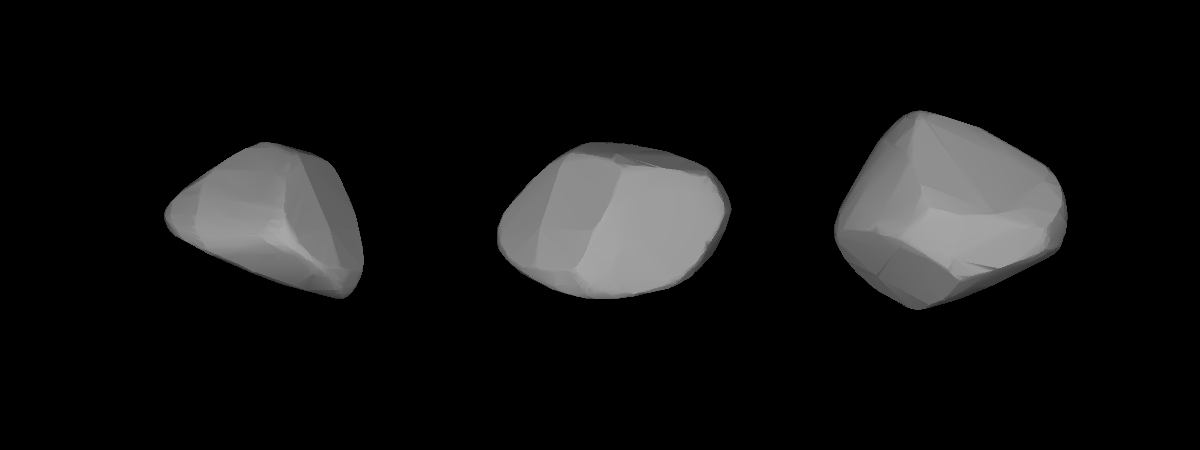 A three-dimensional model of 440 Theodora that was computed using light curve inversion techniques.